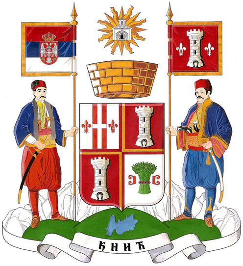 Great Coat of Arms of Knic